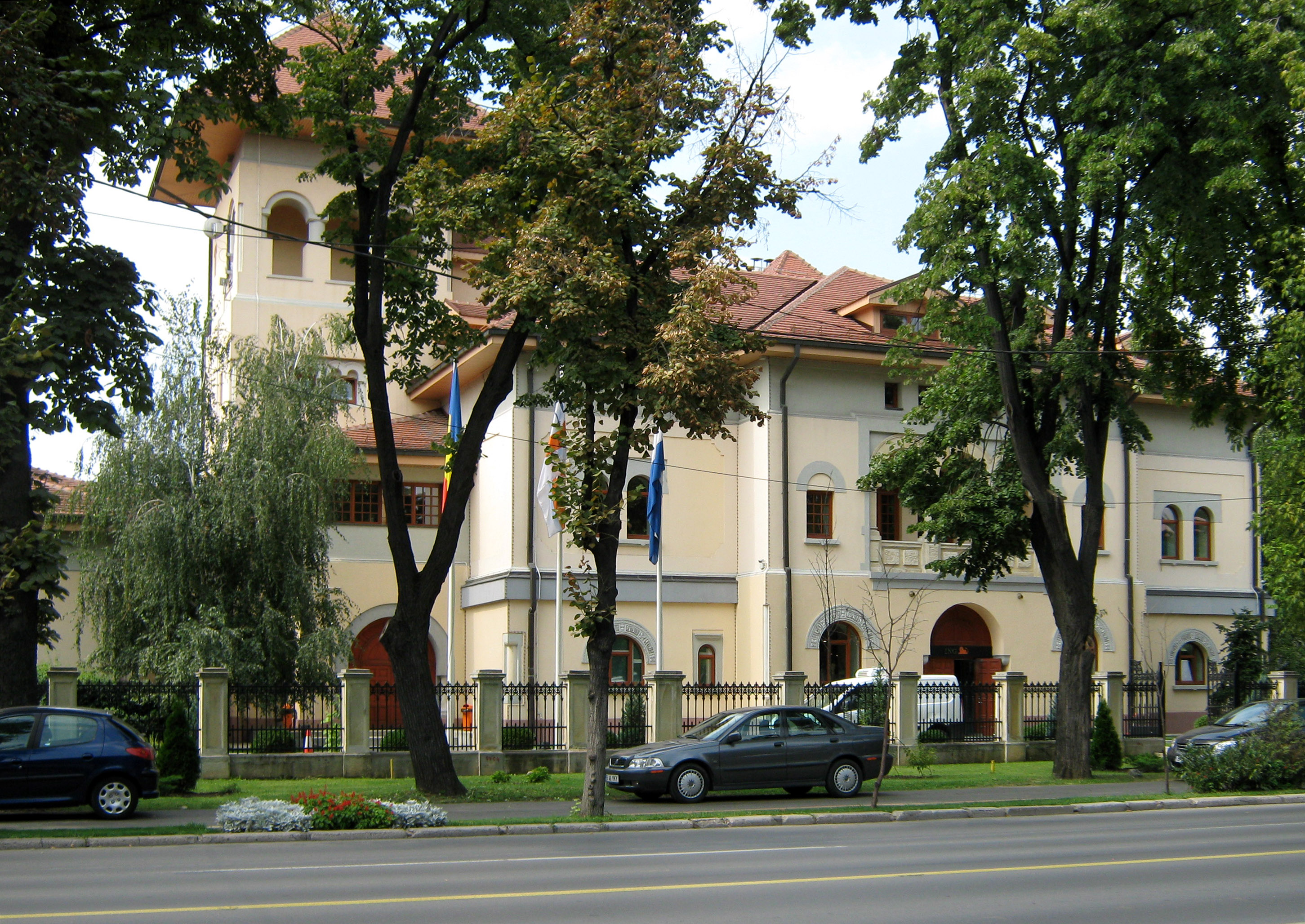 Former Kiseleff Royal Palace - Bucharest.